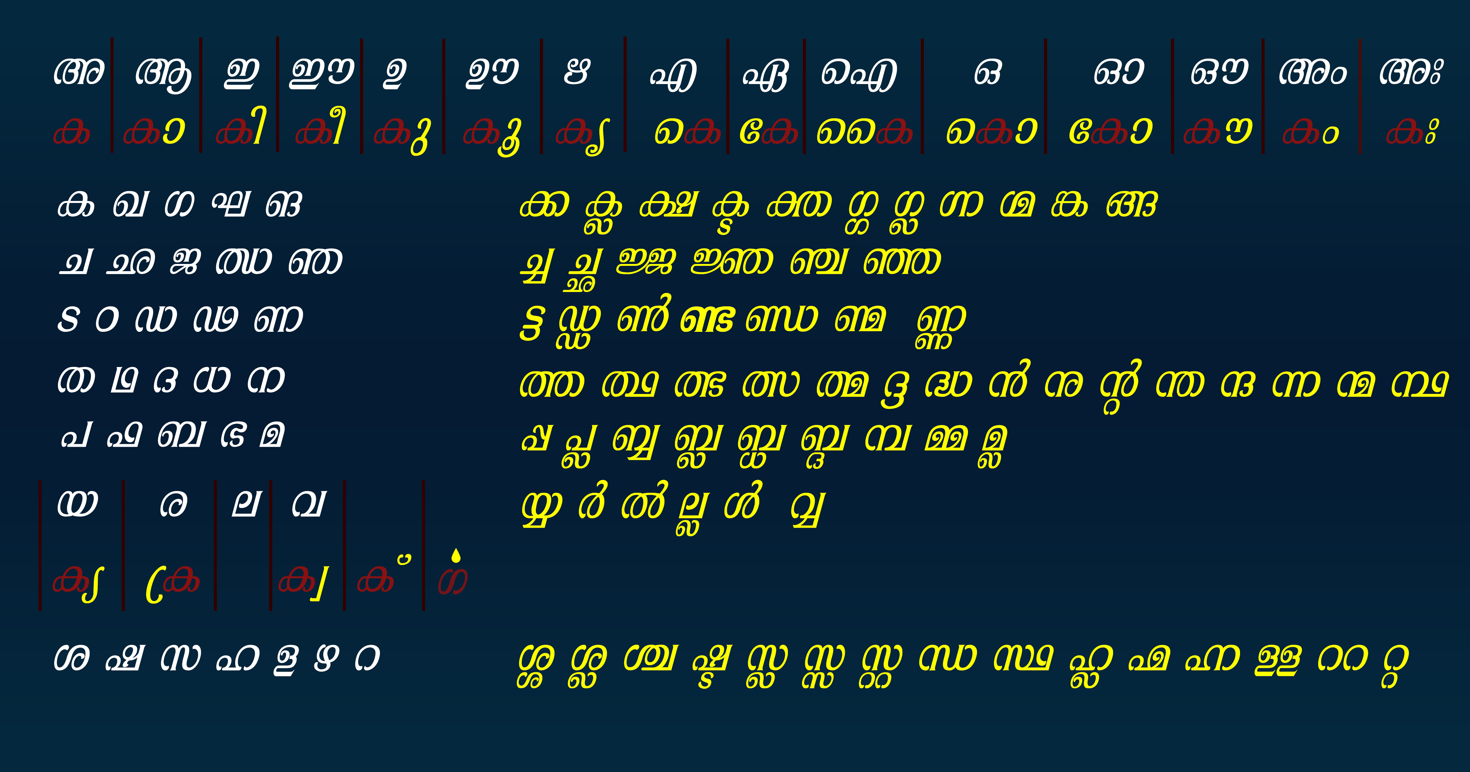 Malayalam alphabet